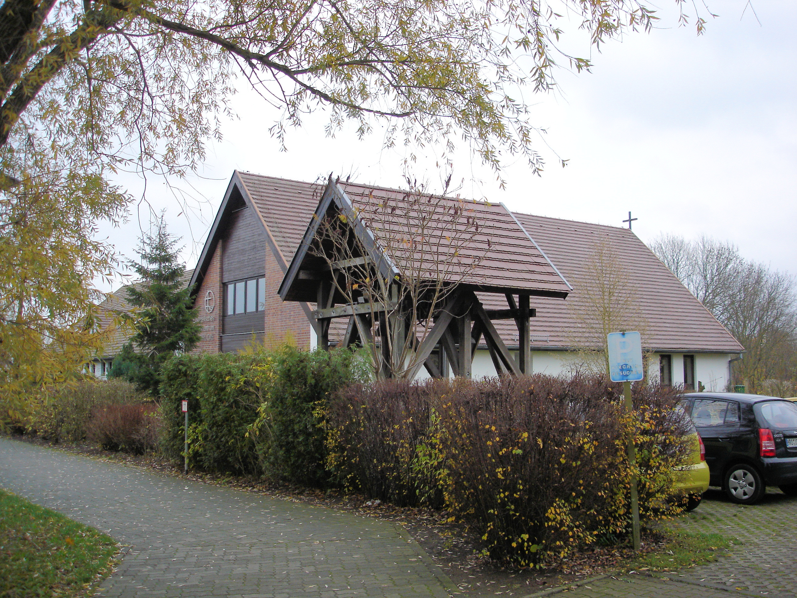 Church/parish hall "Brücke" in Rostock, Mecklenburg, Germany